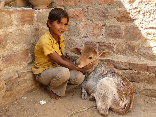 A bishnoi boy with calf.